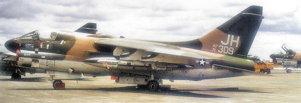 A-7D Serial 71-0309 from the 3d Tactical Fighter Squadron / 388th TFW, Korat Royal Thai Air Force Base Thailand 1972: Delivered to 354th Tactical Fighter Wing/356th TFS, Myrtle Beach AFB, SC (c/n D-220) Deployed to Korat RTAFB, Thailand, October 1972; Transferred to 388th Tactical Fighter Wing/3d TFS, March 1973 Transferred to 23d Tactical Fighter Wing, England AFB, LA 1975 Transferred to 124th Tactical Fighter Squadron, IA Air National Guard, 1981 Transferred to AMARC as AE0206 Sep 15, 1991. Disposition: 04-APR-97 / To National, Kolb Rd, Tucson, AZ. Seen in scrapyard 8/28/2000.